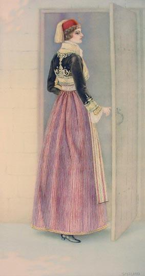 Greek Macedonian Woman's Town Dress (Macedonia, Siatista) - Greek Costume Collection by NICOLAS SPERLING (Russia 1881-1940 / act: Athens).